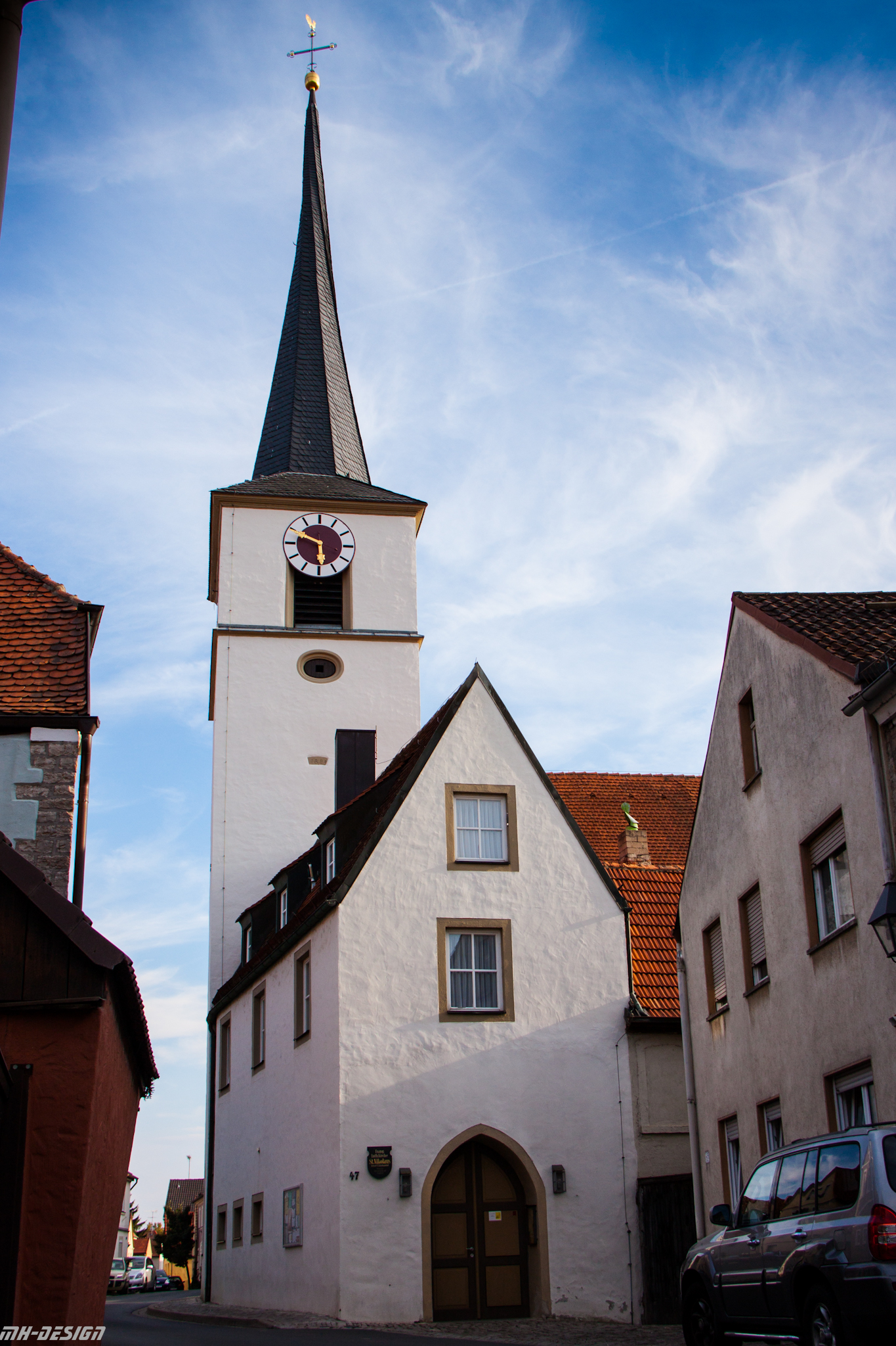 This is a photograph of an architectural monument.